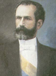 Painting of Ramón González Valencia, ex-Vice-president of Colombia.